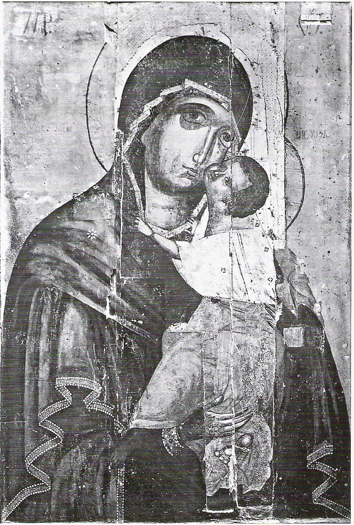 Theotokos Eleusa of Tolga of Near Kubenskoe. Icon from Church of Resurrection from Near Kubenskoe Village of Vologda Uezd. Over-painting of 16th Century.